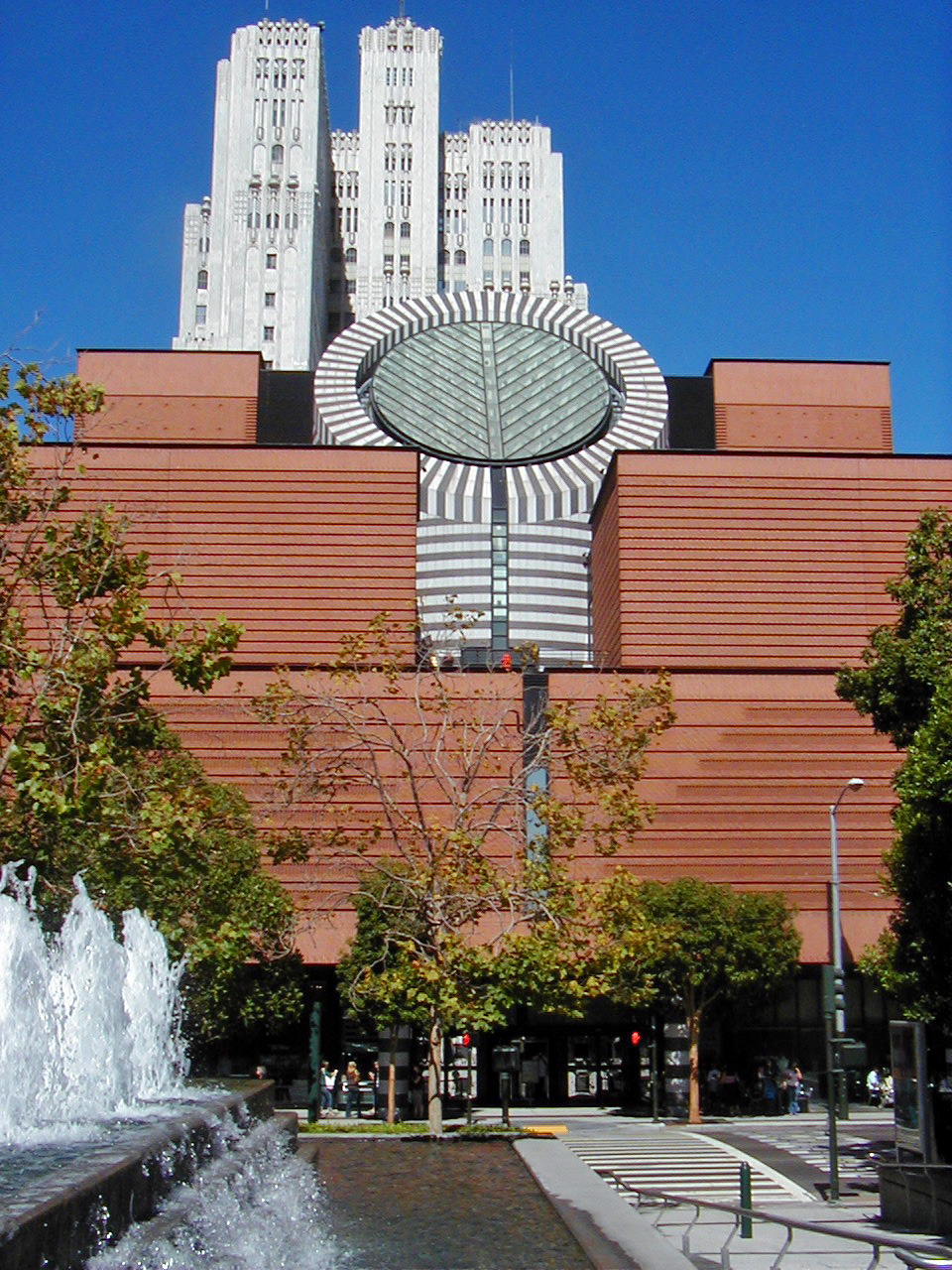 San Francisco Museum of Modern Art